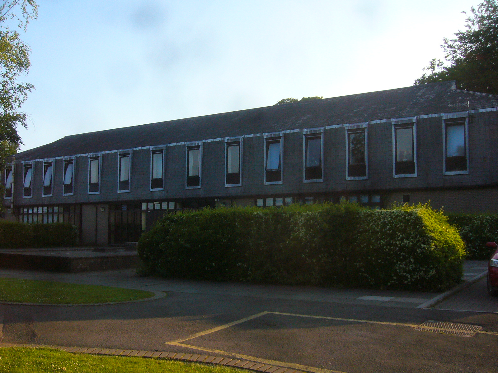 The Canterbury Building, Lampeter